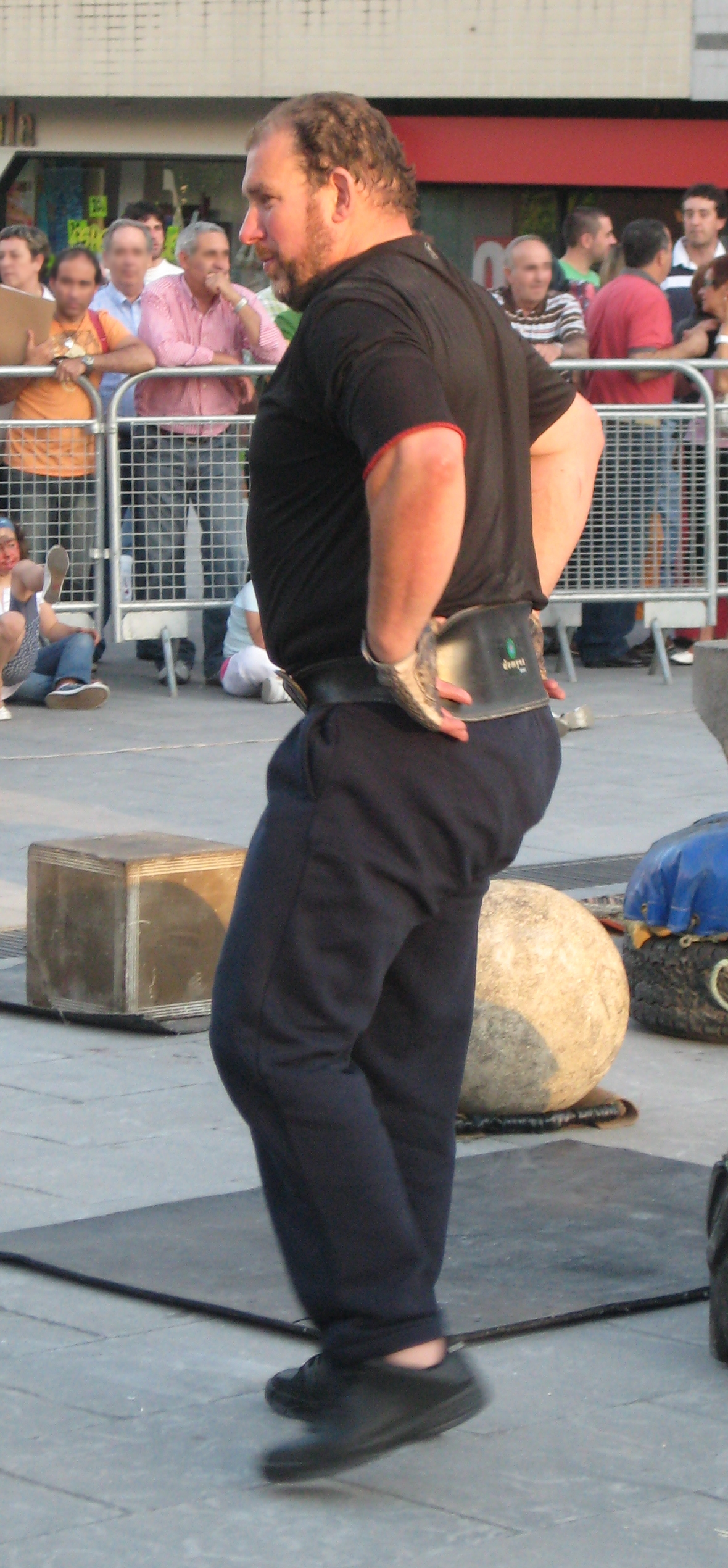 Navarran stone lifter Iñaki Perurena (in black) after an exhibition for the Saint John's fests in Leioa (Lejona), Biscay.